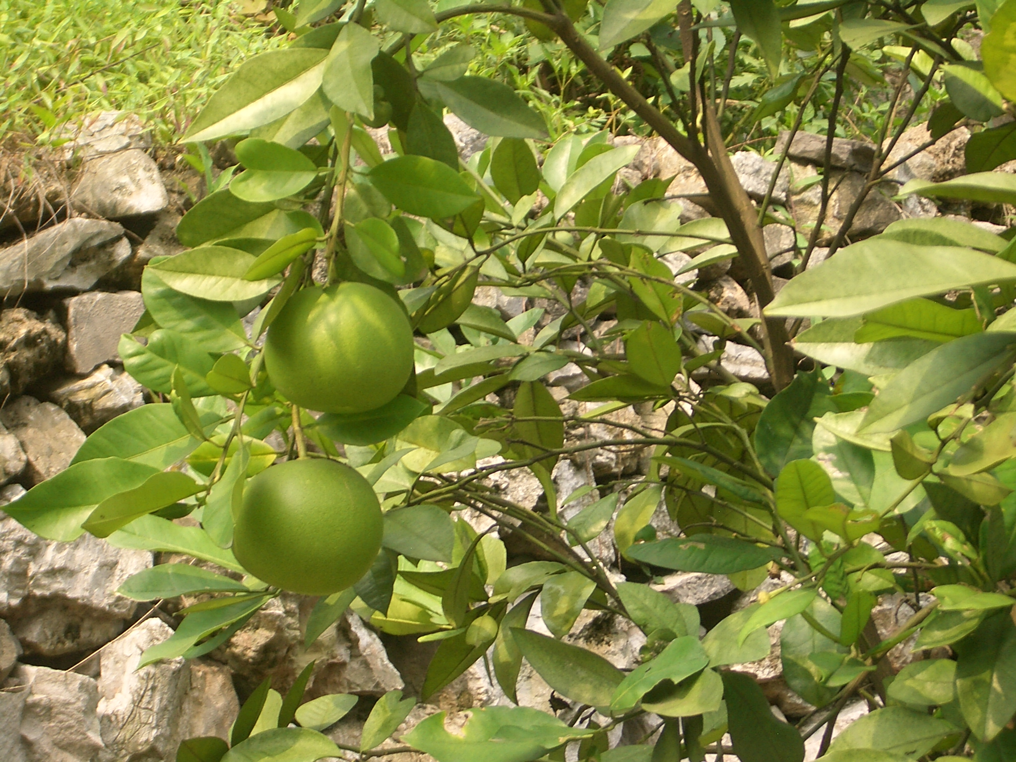 Pomelos or grapefruits ripening in a garden near Hubei route S334 west of Liantuo village (Yiling District, between Yichang and Sandouping)